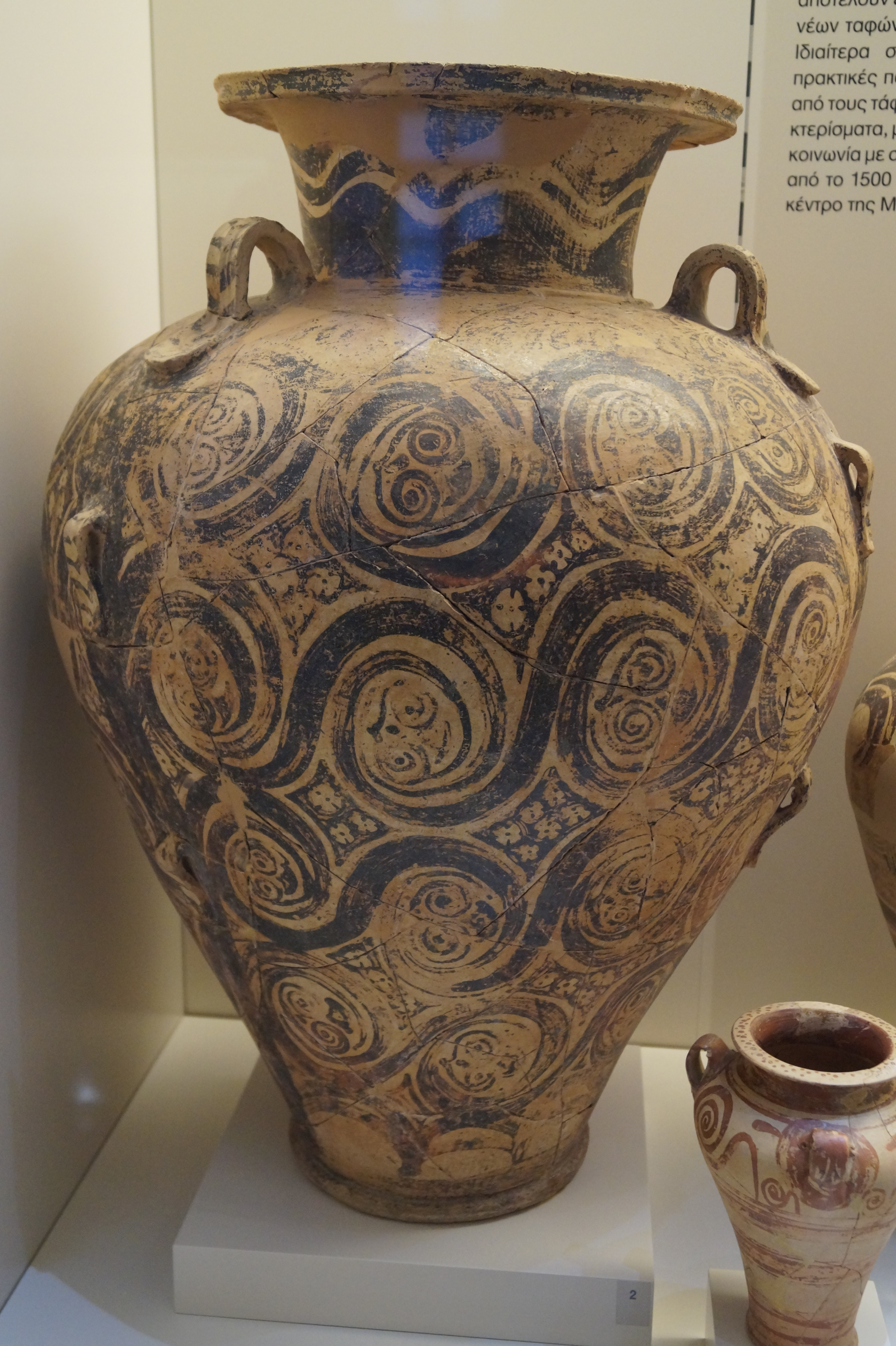 Archaeological Museum of Nafplio: Piriform jar from chamber tomb 10 of Dendra cementery (1500-1450 BC).